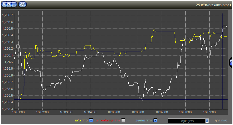 TA25 index arbitrage